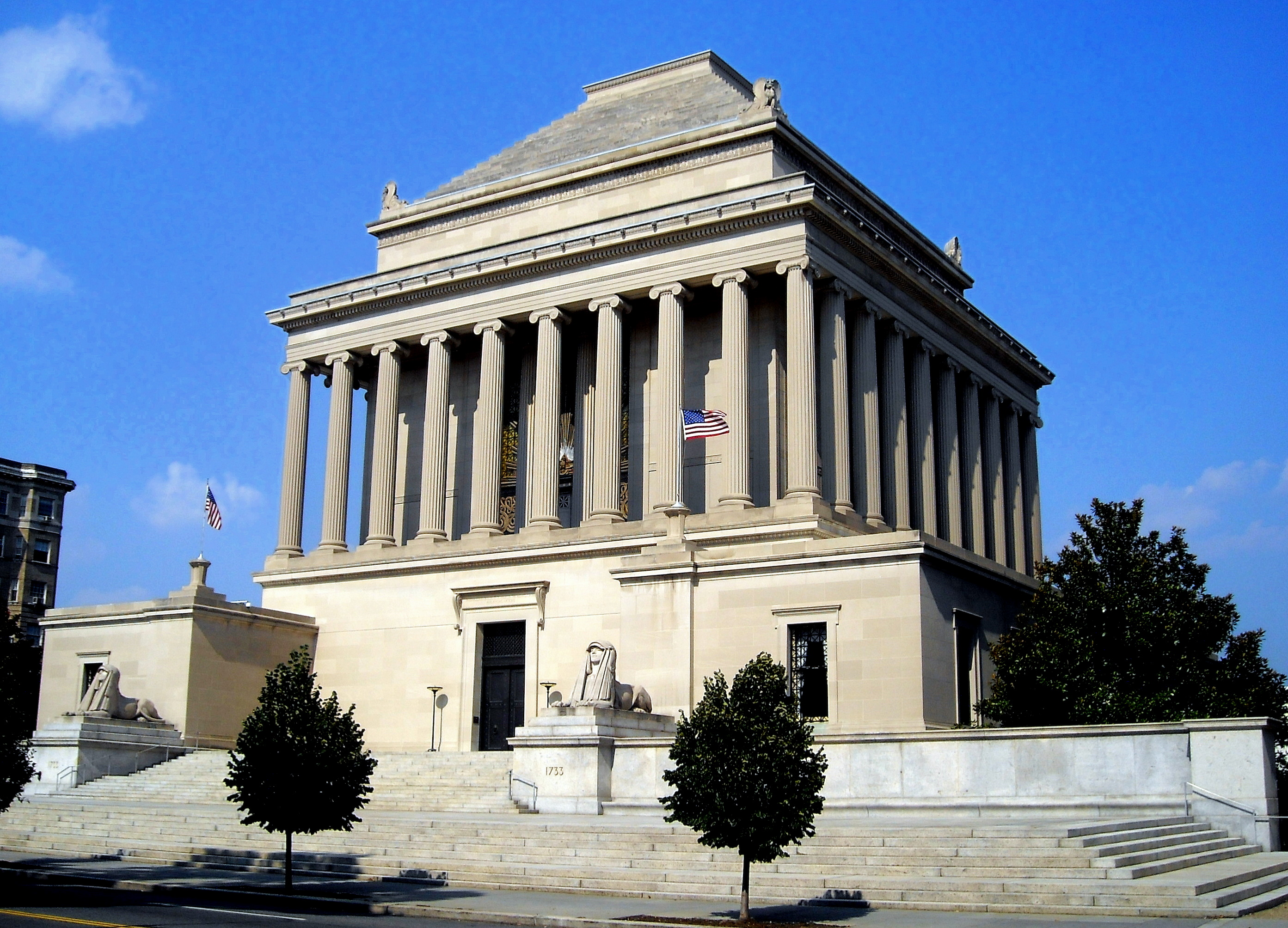 The Scottish Rite of Freemasonry's House of the Temple at 1733 16th Street, NW in the Dupont Circle neighborhood of Washington, D.C.